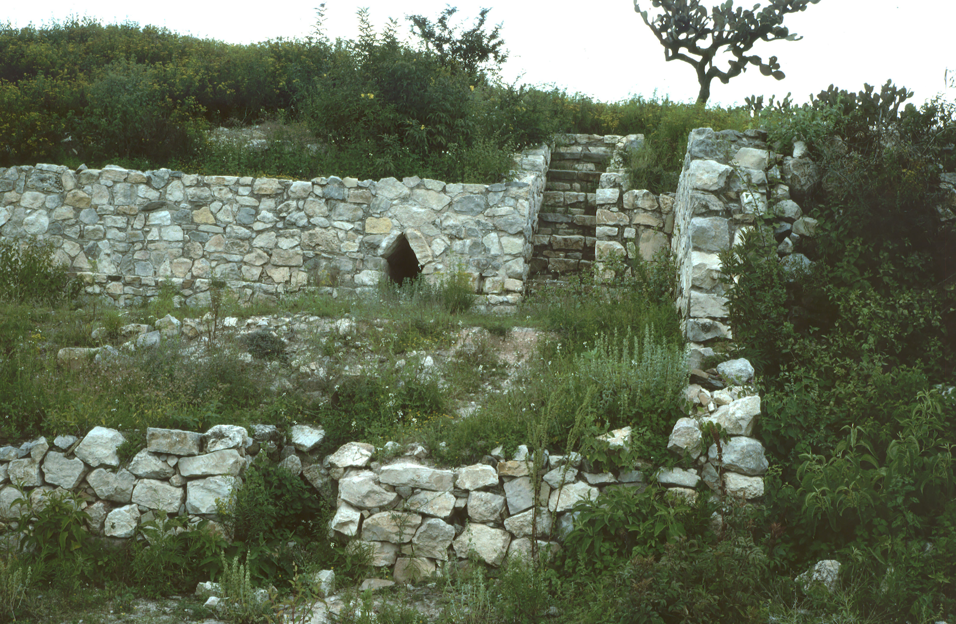 Yucuito, Oaxaca, Mexico.